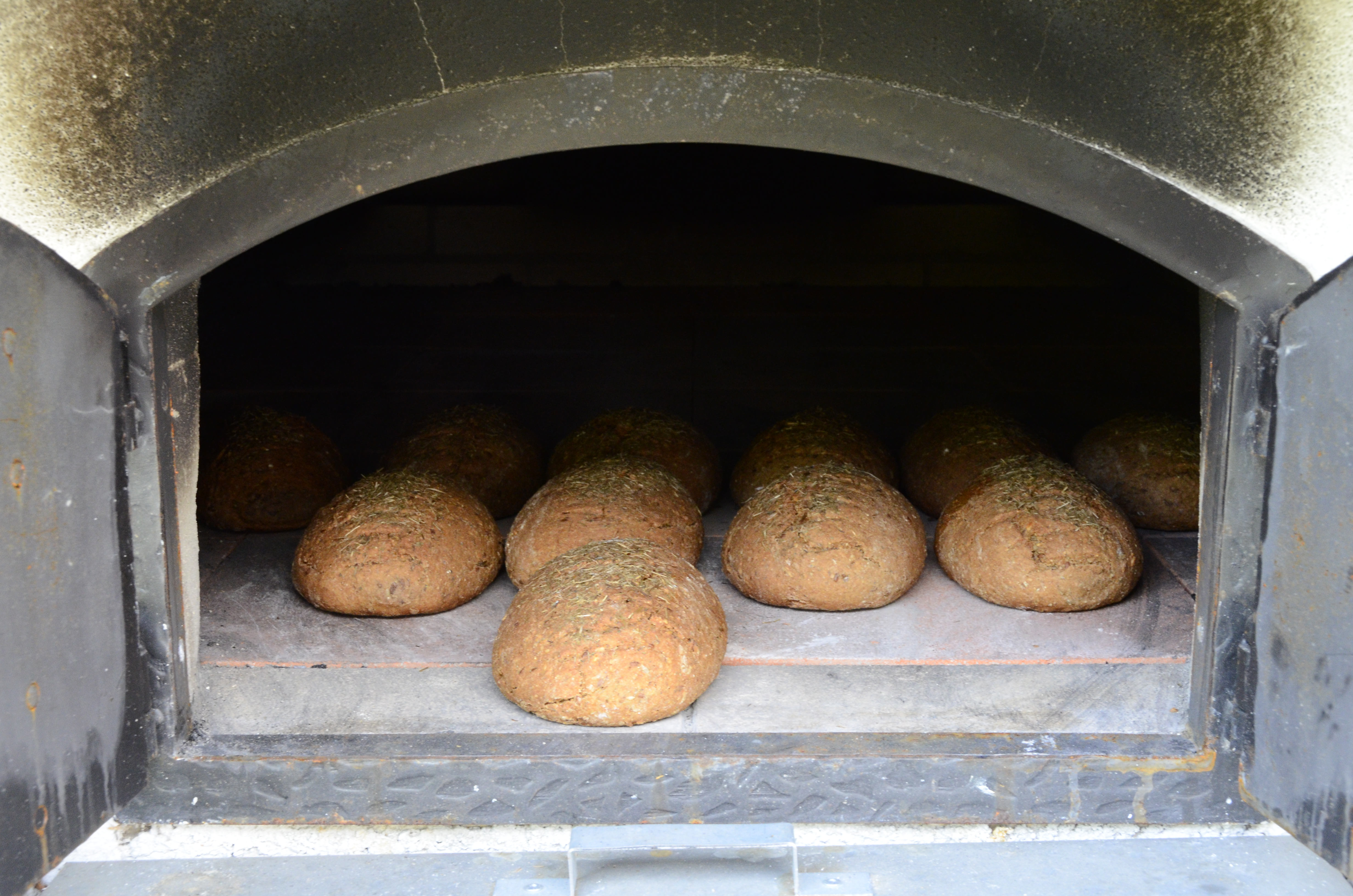 Baked breads inside the traditional oven on Stabentheiner Hof at Stabenthein #1, Liesing, municipality Lesachtal, district Hermagor, Carinthia / Austria / EU